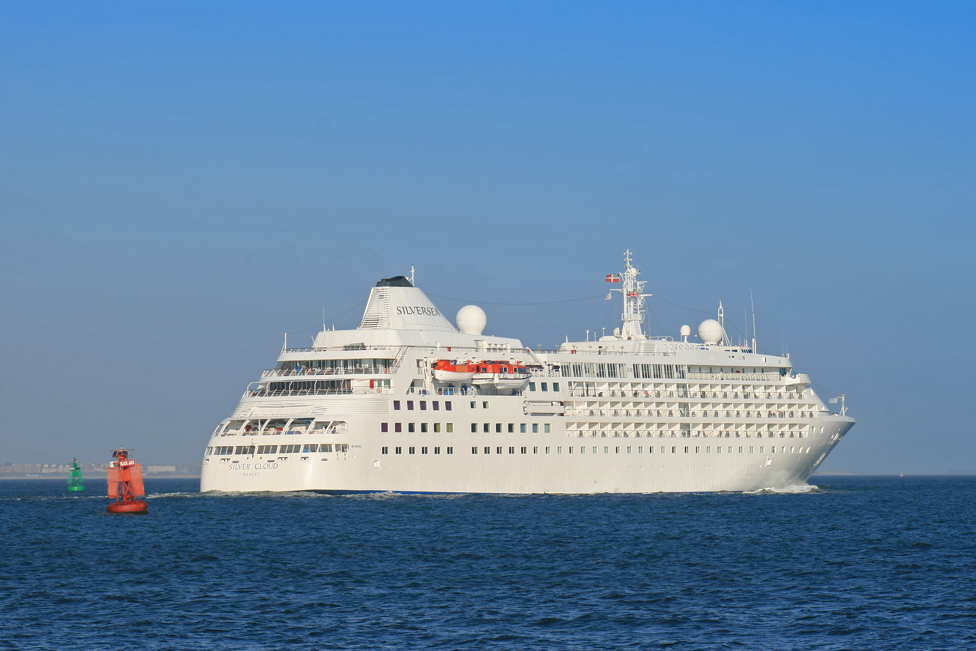 16,800 gross tonnes cruise ship Silver Cloud passing the Black Jack light buoy, photographed from Calshot Spit outward bound from Southampton 26 June 2011 via the Solent North Channel. Image uploaded by me User:George.Hutchinson from a photograph taken by and supplied by Brian Burnell. Wikipedia editors are reminded that the copyright remains with the photographer, and that the terms of the Creative Commons licence; that allow editors to reuse this image apply to Wikipedia editors also, as they do to other re-users of this image. Breaches of the licence terms are not only unlawful, but are also antisocial, in that breaches discourage photographers from making their images freely available to everyone without payment. Wikipedia re-users are also reminded of the license terms that derivatives of this image should not imply that the adaptation is endorsed or approved by the author or copyright holder. Neither should derivatives be presented as the creation of the author or copyright holder, while clearly stating that the adaptation is a derivative of the original. Attribution online should be in this format Brian Burnell. On the printed page, a simpler form is acceptable - example: "Image: Brian Burnell". Non-Wikipedia users are requested to advise Brian Burnell of its use other than on Wikipedia.